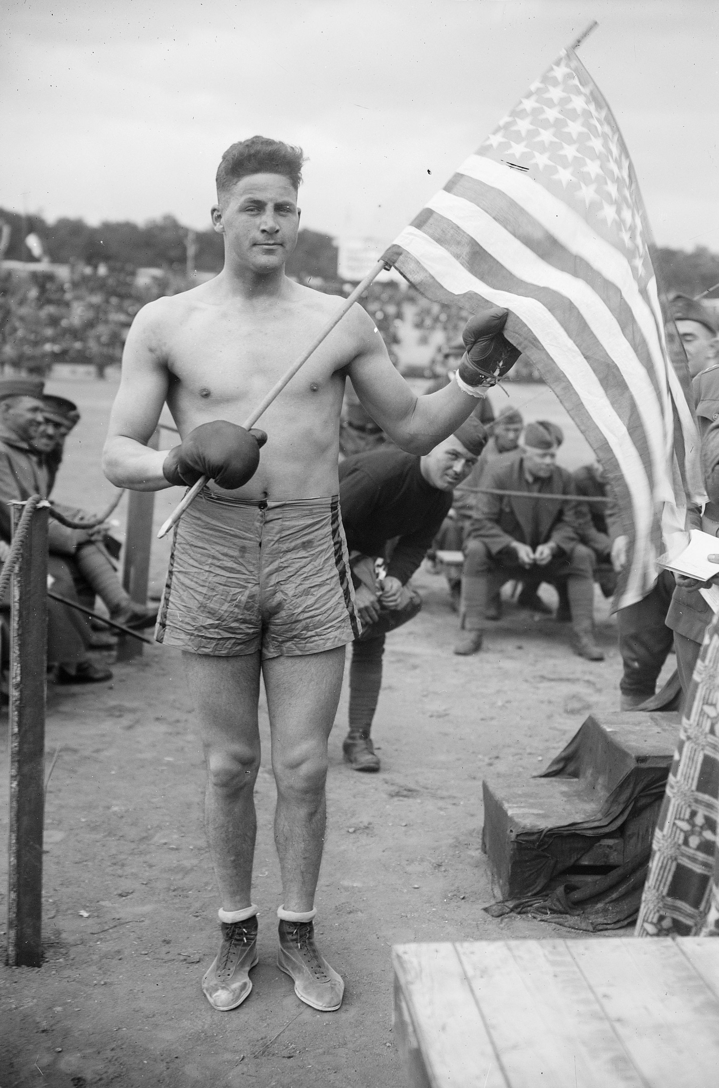 Picture of Bob Martin